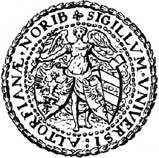 Seal of the University of Altdorf near Nuremberg.